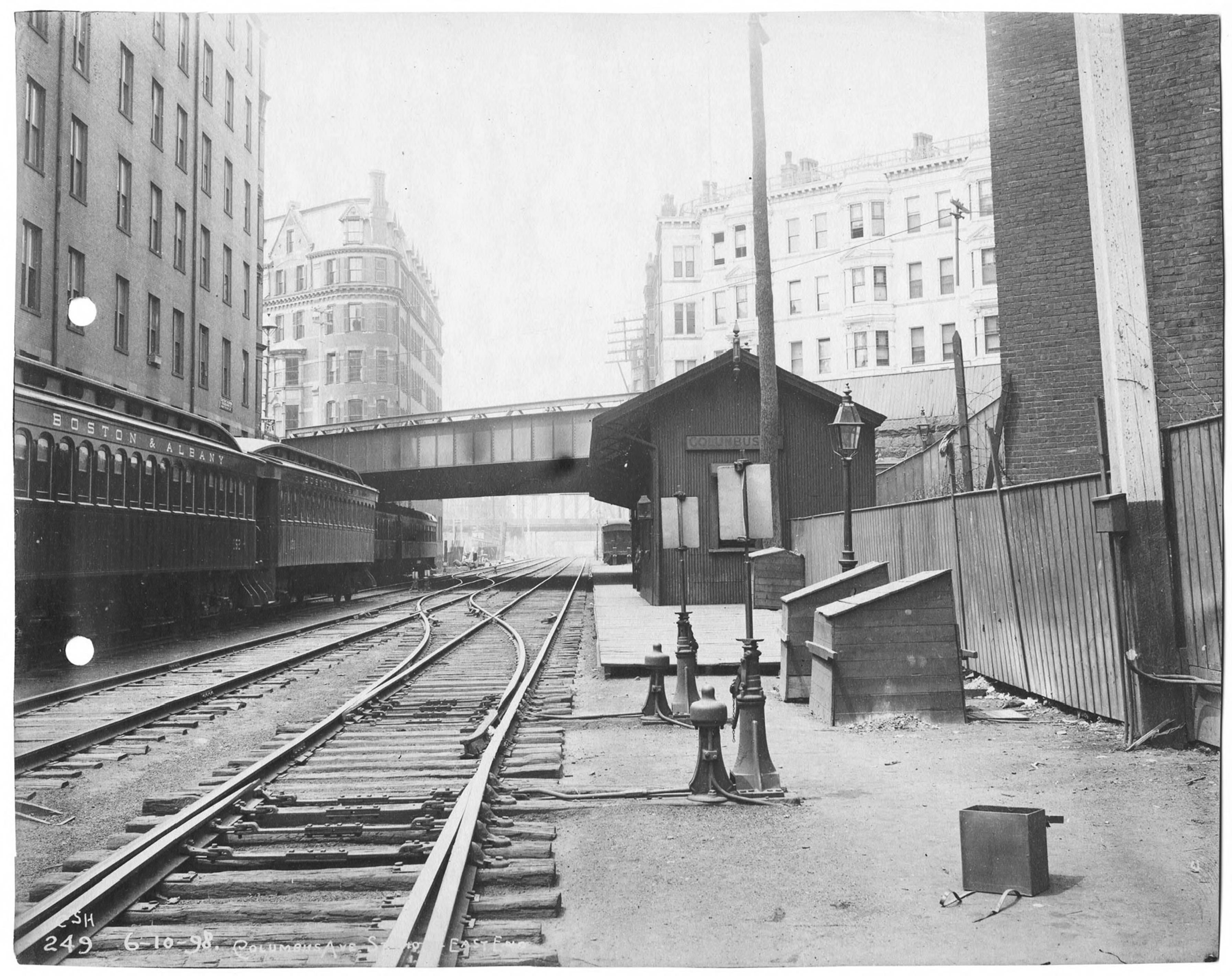 The east end of the Boston & Albany Railroad's Columbus Avenue station in 1898. From the Athenaeum description: Part of a collection of cyanotype photographs documenting the buildings and tracks of the Boston and Albany Railroad Company in Boston, Mass. in June 1898 before alterations caused by the construction of South Station. The photographer, Charles S. Harrington, was employed as a bookkeeper for the Boston and Albany Railroad Company. He also exhibited work at the Boston Art Club.